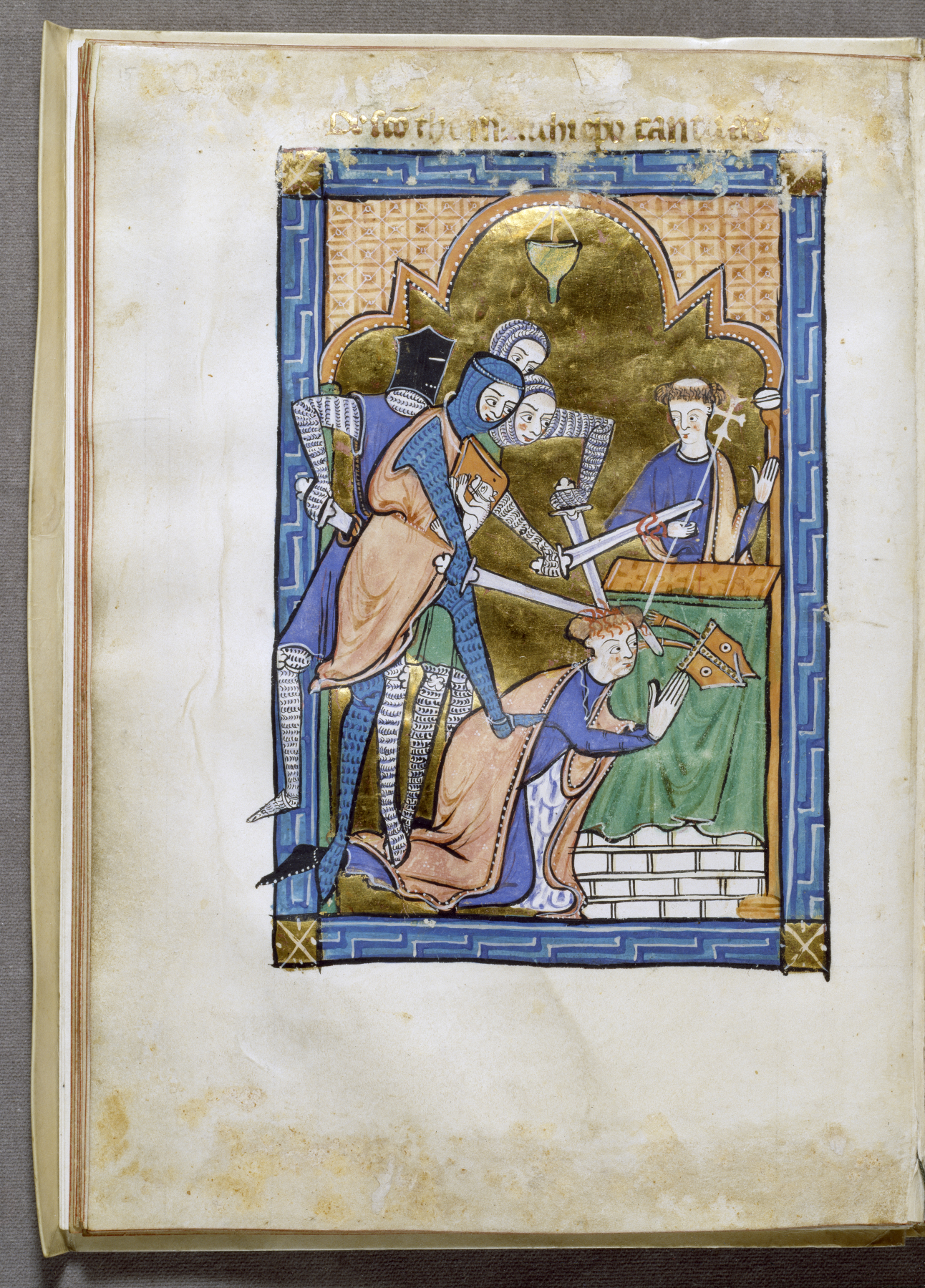 This miniature from an English psalter presents a spirited account of the murder. Three of the four knights attack the archbishop, who is kneeling in prayer before the altar. One of the knights kicks Thomas to the floor, and sends his miter flying as his sword cracks open Thomas's head.